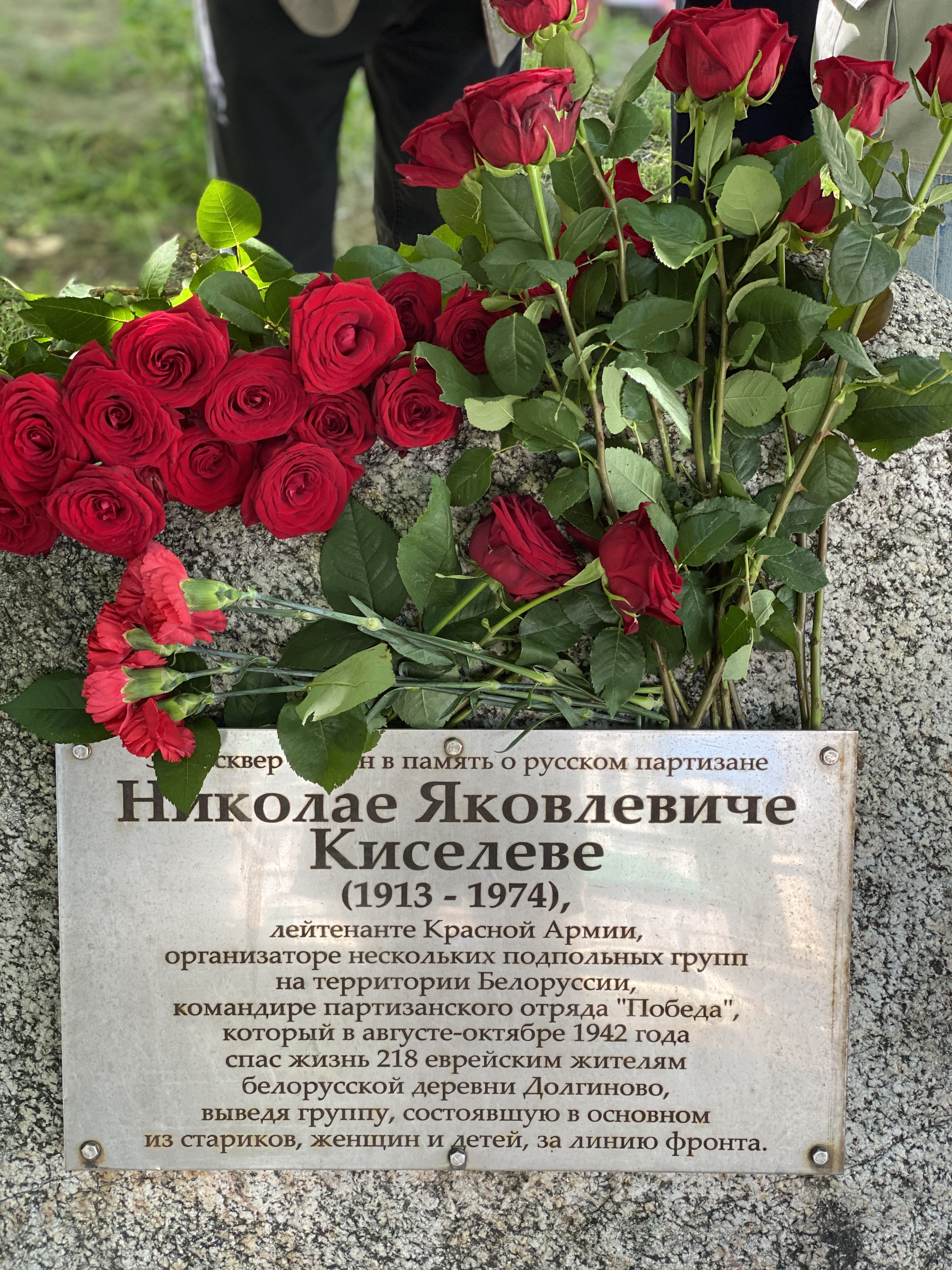 June 22, 2020 laying flowers at the memorial stone in the square named after Nikolay Kiselev on Novy Arbat